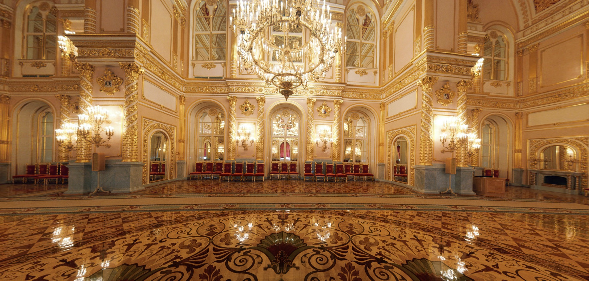 Alexander Hall in Grand Kremlin Palace